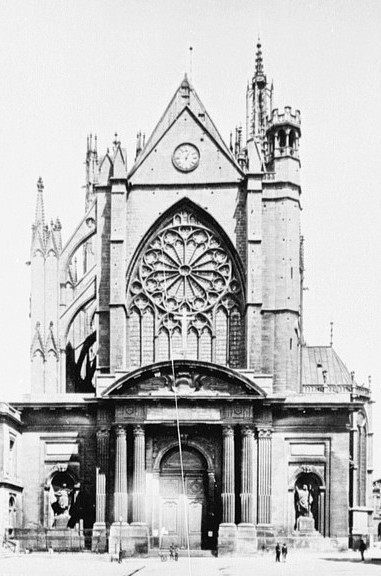 Metz Cathedral before renovation in 1887